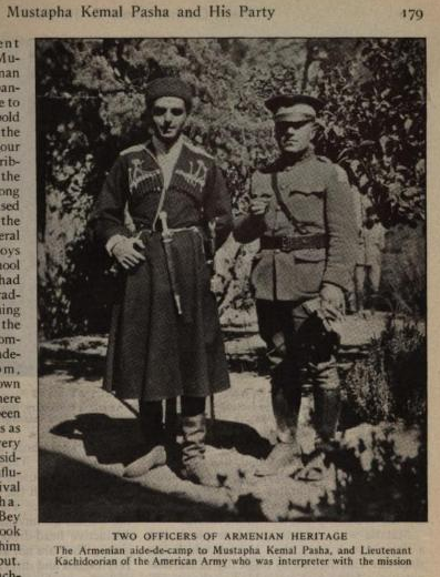 The image was published in 1920 in the "Report on Middle East" by James Harbord.